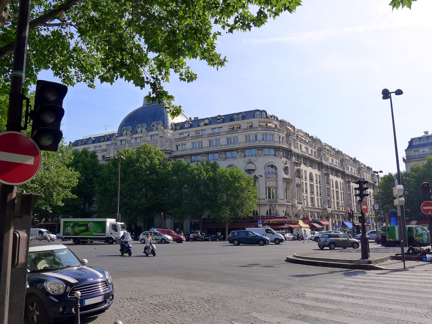 Saint-Augustin place - Paris